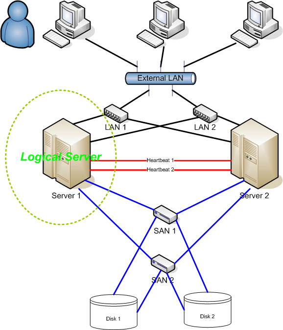 This graphic diagramming a 2 node High-availability cluster computer cluster environment was created by myself (George William Herbert) on 2006-02-10. This file is released for Wikipedia and any other use under the Creative Commons Attribution ShareAlike 2.5 license. Georgewilliamherbert 22:22, 10 February 2006 (UTC)